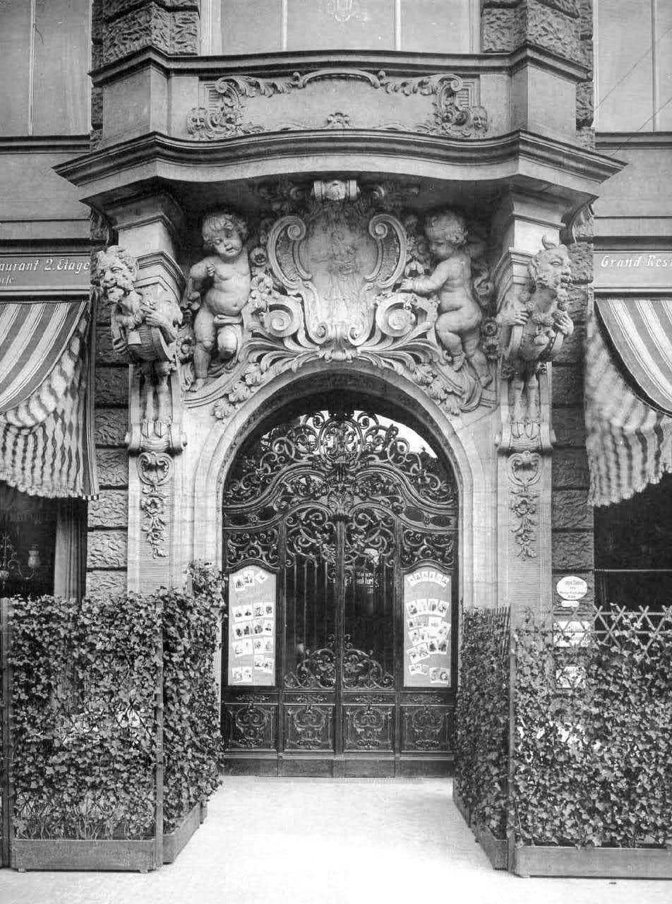 Entrance of the "Kaiserpalast"-building in Dresden, built 1896–1897 by Schilling & Graebner, destroyed 1945